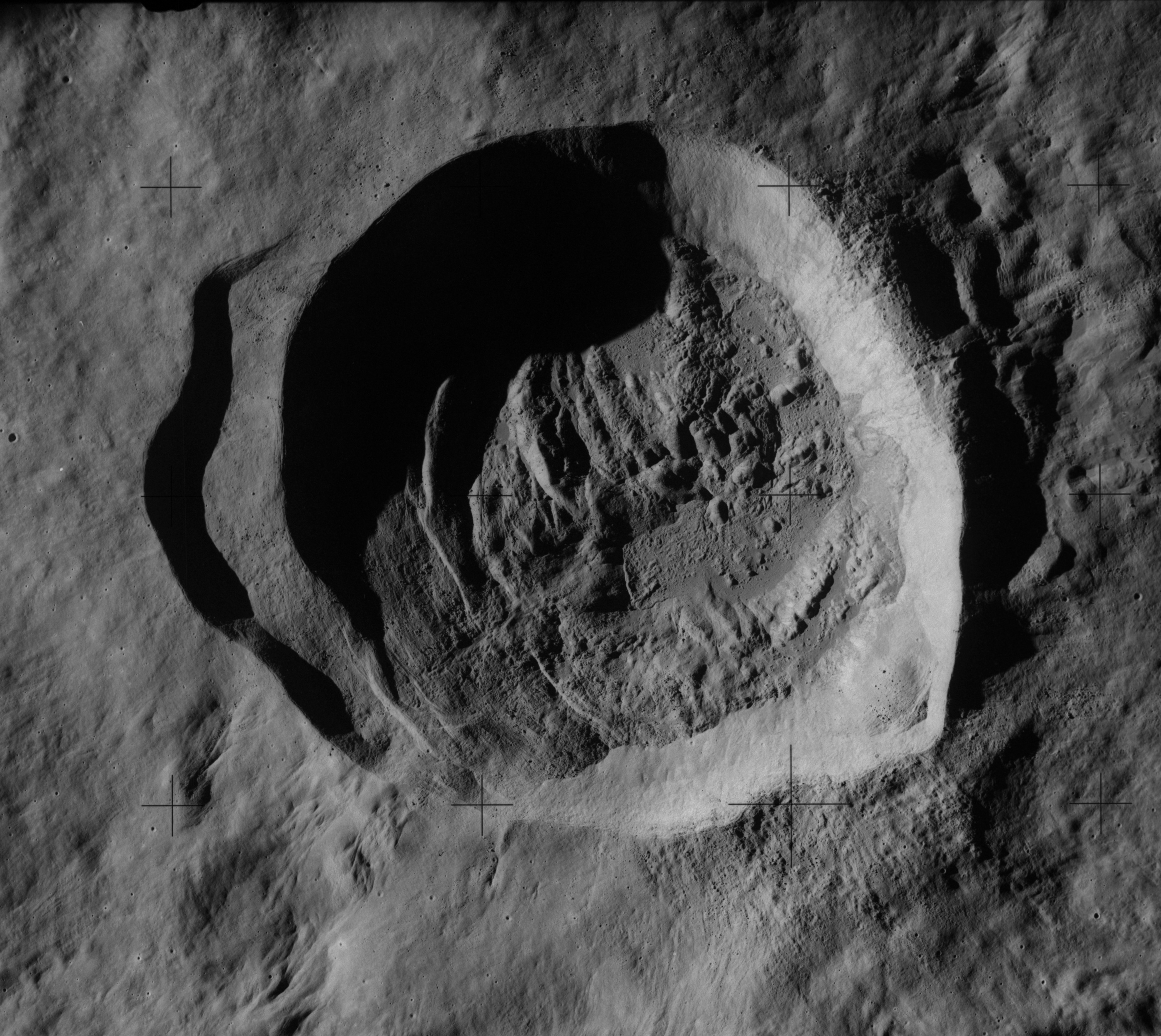 Necho, on the far side of the moon. Sun angle is 17 deg. The Apollo 14 Preliminary Science Report (chapter 18, Orbital-Science Photography) states the following based on this photograph:The crater has a rim-crest diameter of approximately 35 km, but the general outline is partly distorted by incipient major wall failure and slumping. Looped secondary crater chains, a braided radial facies, finely terraced walls, and major fracture patterns are clearly seen. The interior terraces within this crater generally trend to the northwest, as opposed to the usual concentric terraces seen in craters of similar age in this size range. In this case, it is evident that most of the postcrater gravitational filling occurred by the collapse of the partly shadowed wall.